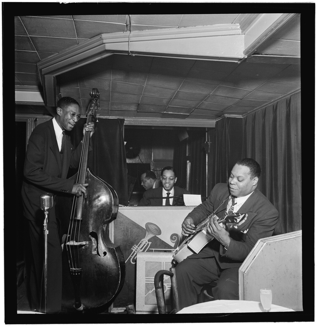 Photo of jazz band with of Billy Taylor, piano; Zutty Singleton, drums and Leonard Ware, guitar. Possibly Pops Foster on string bass? New York, N.Y.(?)